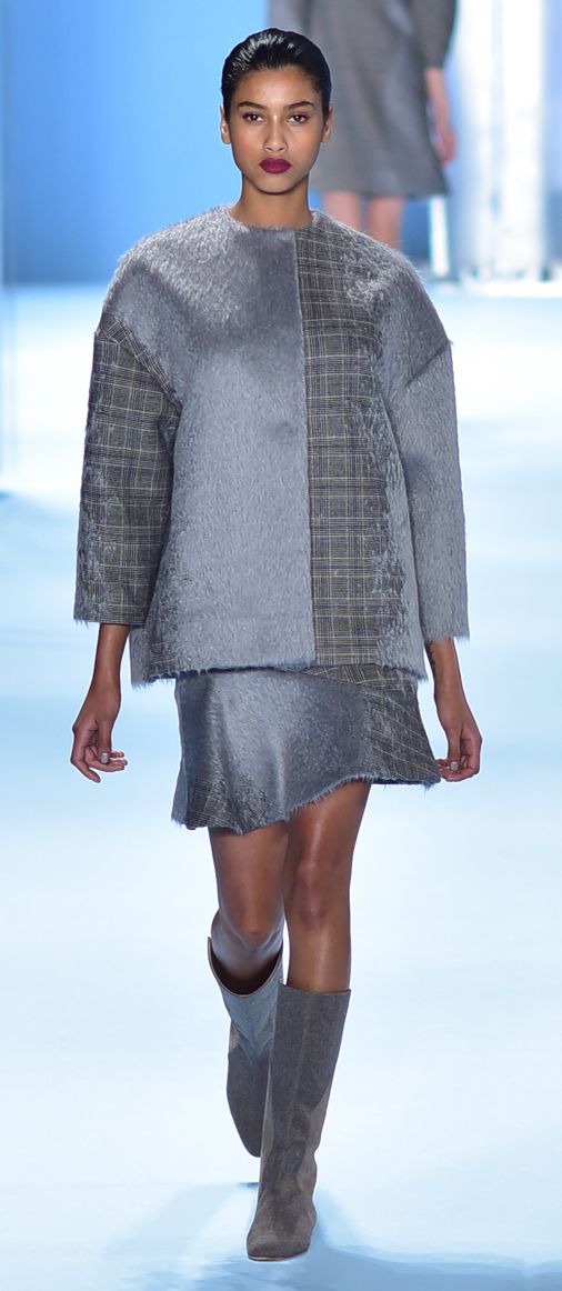 Imaan Hammam (born October 5, 1996) is a Dutch fashion model.